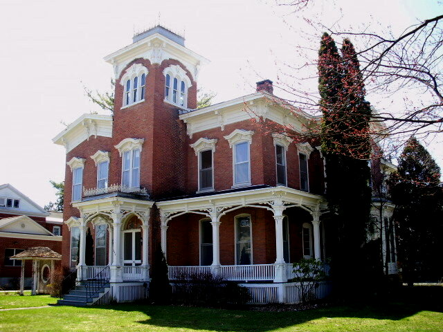 The Farnam Mansion in Oneida, New York.